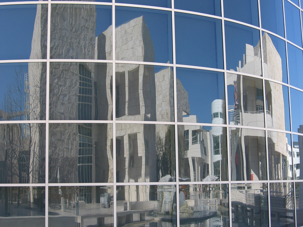 getty center, building, LA